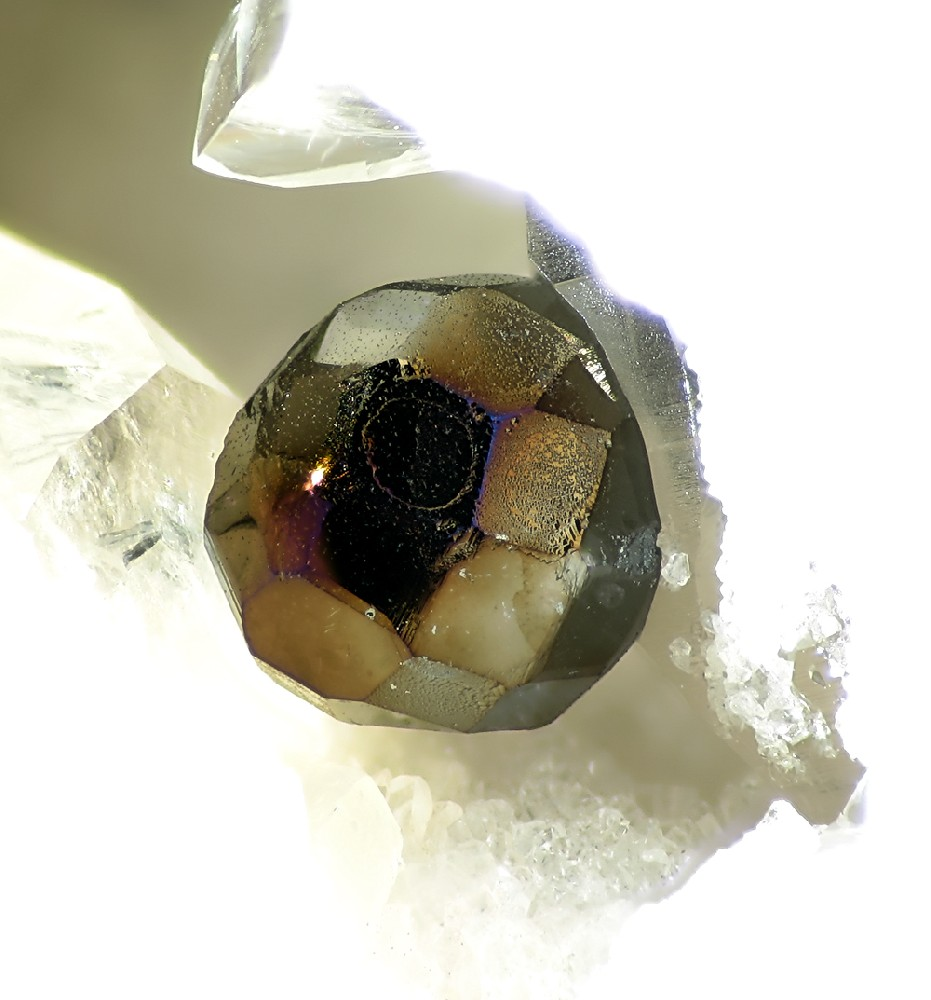 Tennantite Locality: Lengenbach Quarry, Im Feld (Imfeld; Feld; Fäld), Binn Valley, Wallis (Valais), Switzerland (Locality at ) Picture width 2 mm. Collection and photograph Christian Rewitzer